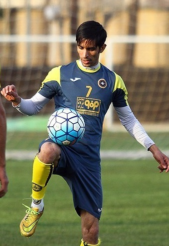 Hossein Papi